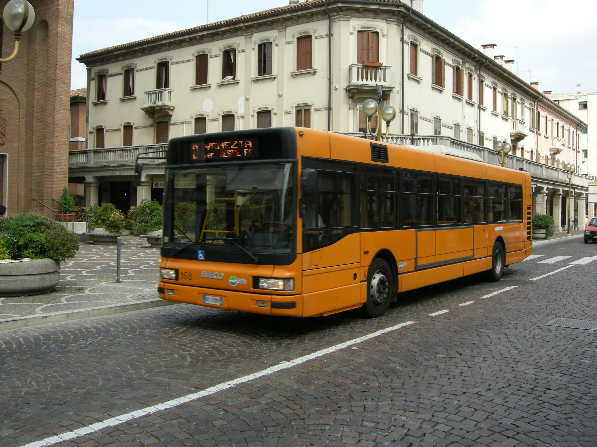 Iveco 491E.12.27 CityClass bus (#168) in Venice (Venèzia), Italy. Built 2000, ACTV Venèzia operator.